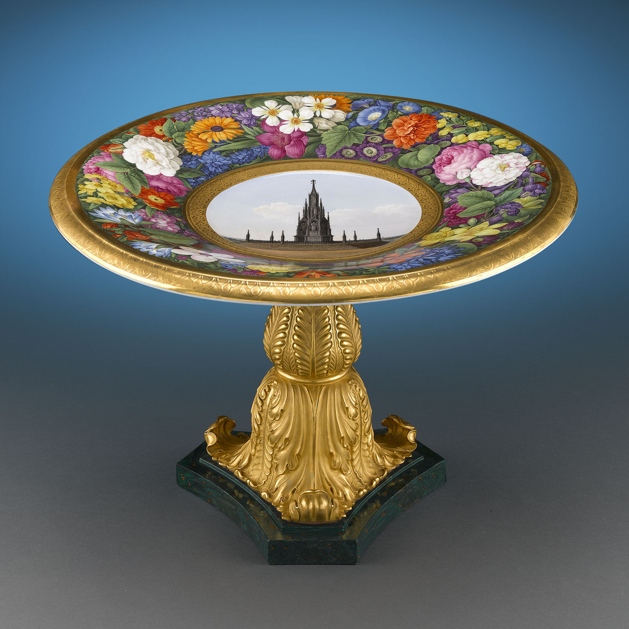 Created for Pope Pius VII by the special order of King Friedrich Wilhelm III. Crafted by KPM (Königliche Porzellan-Manufaktur)